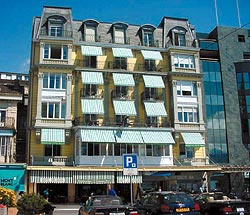 Hôtel Splendid